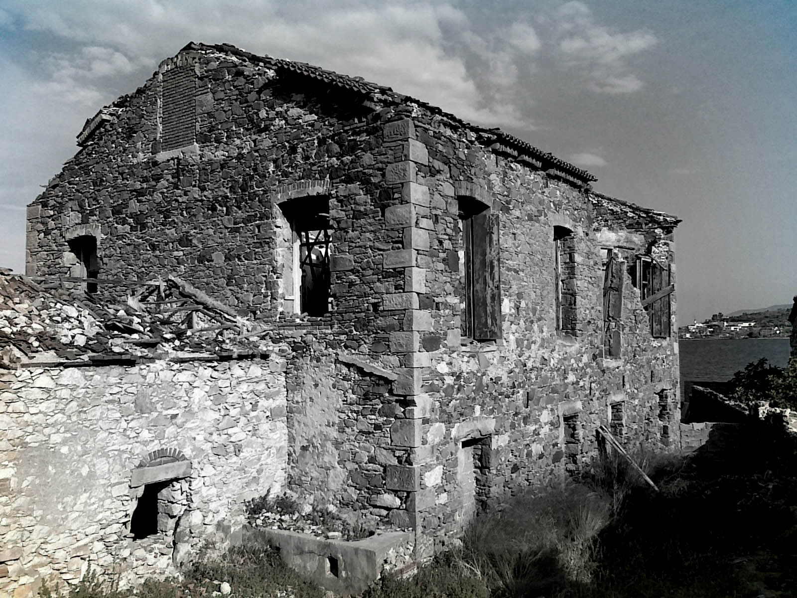 Olive press or soap ruined old factory in Panayoudha, Lesvos, Greece.